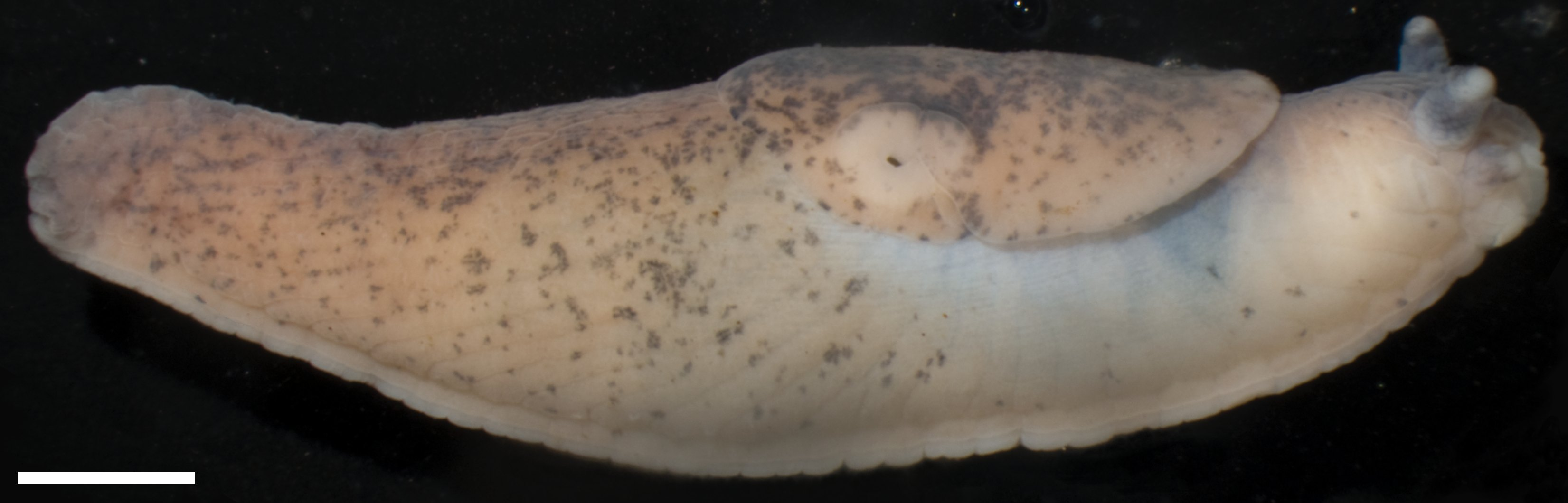 Deroceras invadens preserved in alcohol, which accentuates the pattern of spotting. This, the pale pneumostome, and the shape of the tail are indicative but not diagnostic characters. Scale bar = 3 mm. Collected from under laurel at the type locality (Nork Park, Surrey, England) on 9.xii.13. Killed in carbonated water. Photographed 9.x.14 by J.M.C. Hutchinson